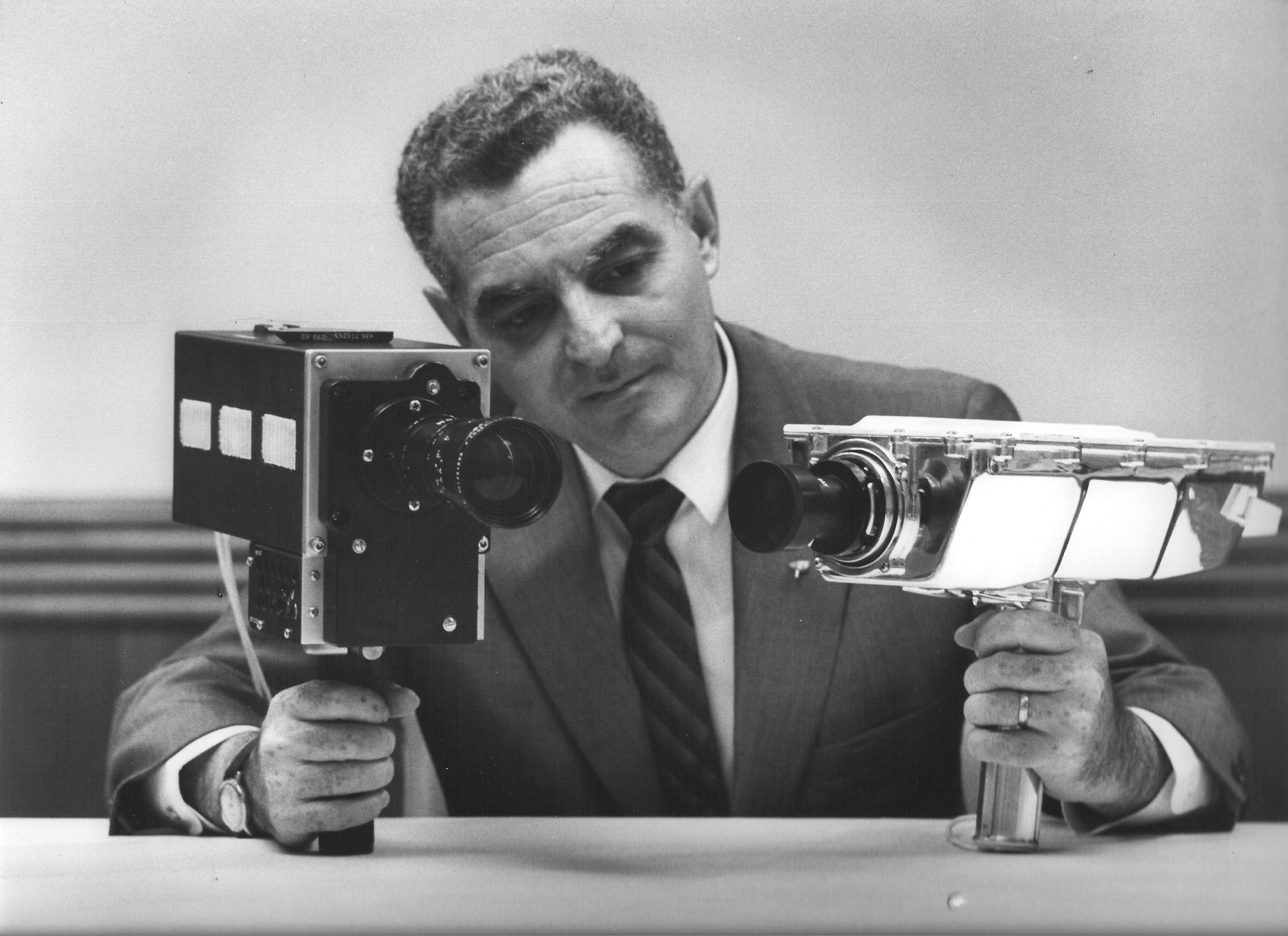 Stan Lebar, the project manager for Westinghouse's Apollo Television Cameras, shows the Field-Sequential Color Camera on the left, and the Monochrome Lunar Surface Camera on the right. The Color camera was used on all flights starting with Apollo 10, while the monochrome Lunar Surface Camera was used on Apollo 11, and captured Neil Armstrong's first steps on the Moon. That was the its last mission, and was replaced by a modified version of the Color Camera in subsequent missions.